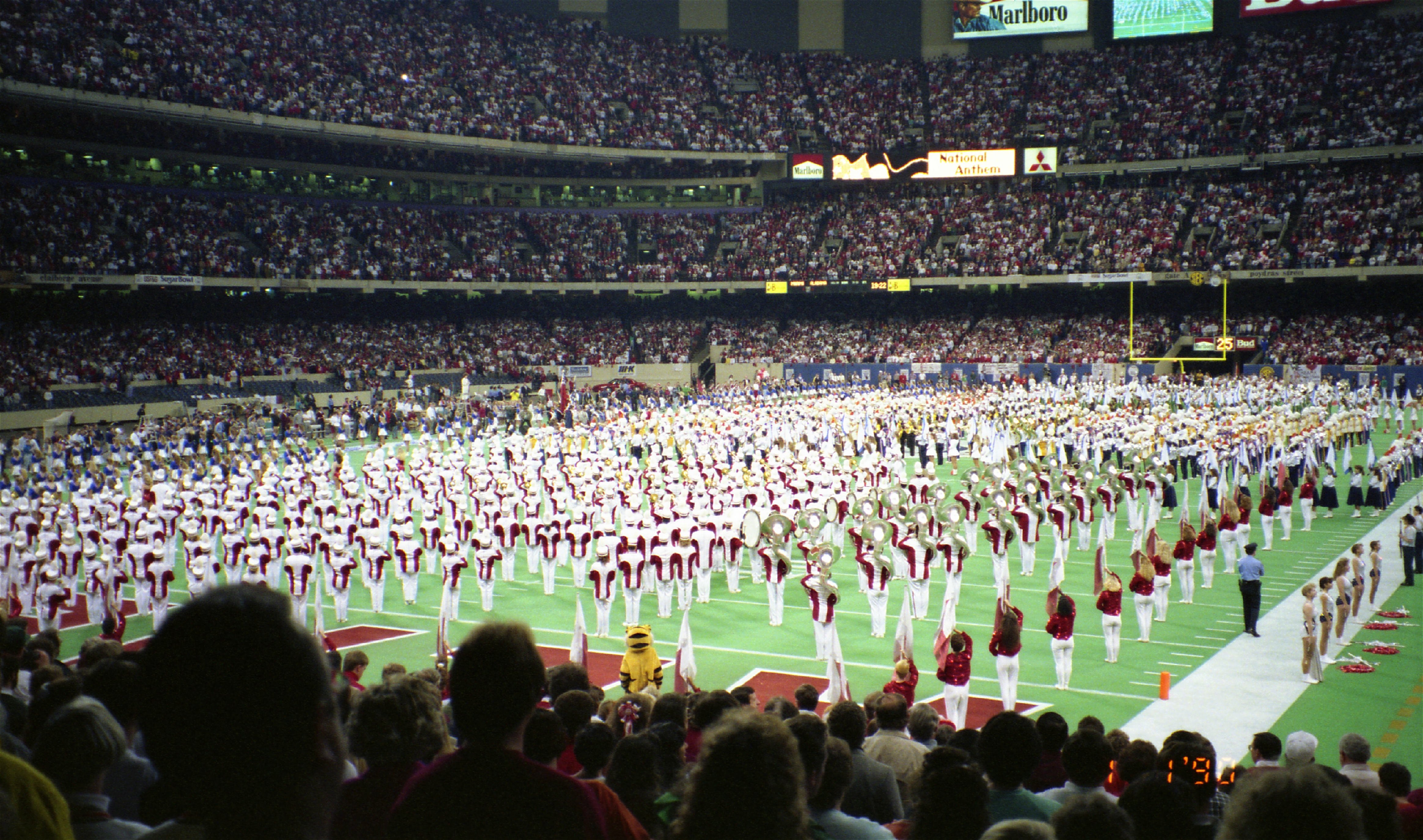 Louisiana Superdome, New Orleans. Band playing the National Anthem before the Sugar Bowl game, 1990. Original title: "Marlboro National Anthem" (a reference to the visible advertising).